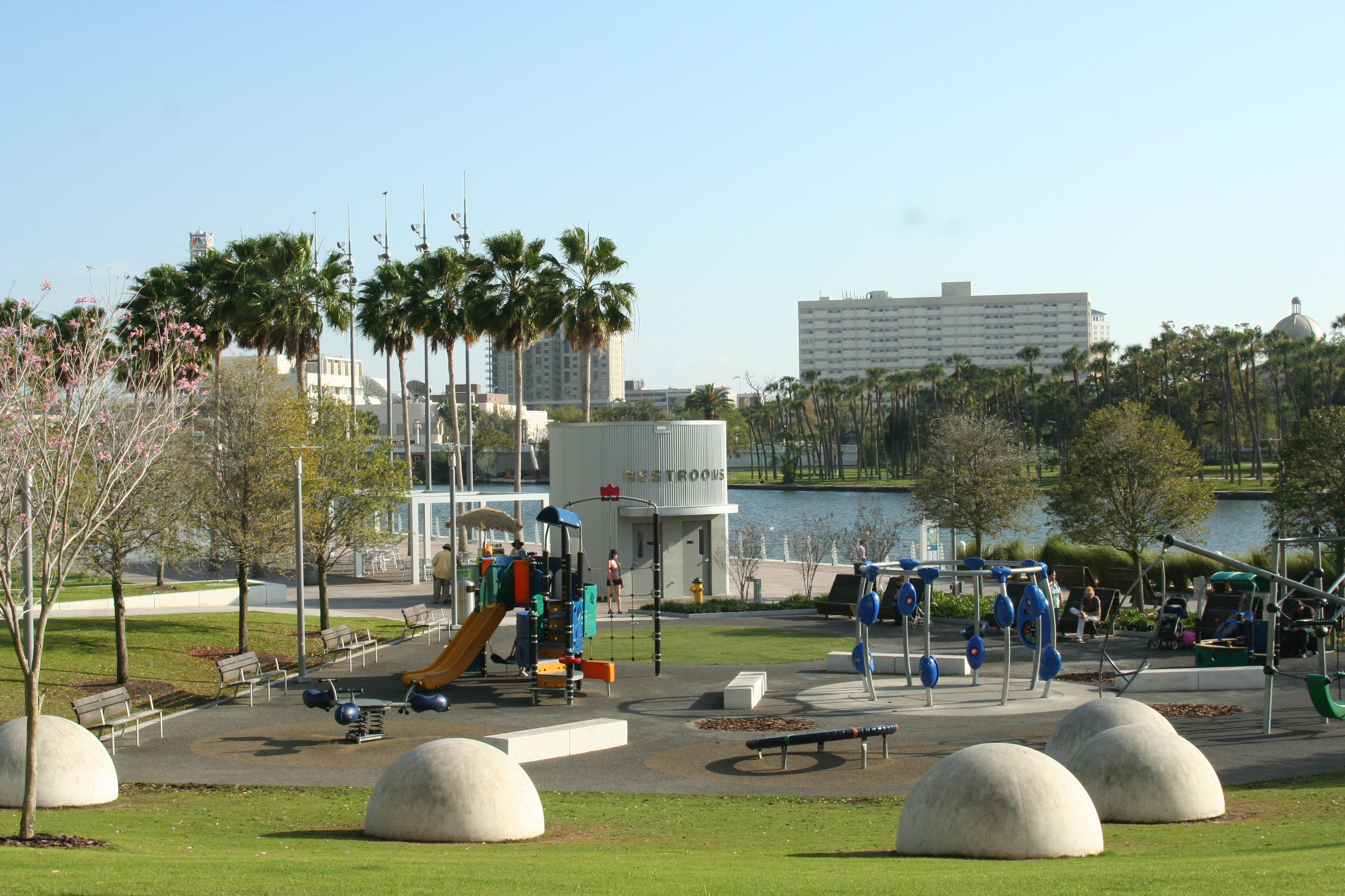 Playground by Tampa's Curtis Hixon Park, Riverwalk, Hillsborough River, and Museum of art. 2012